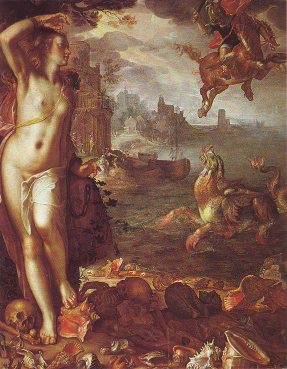 Perseus and Andromeda